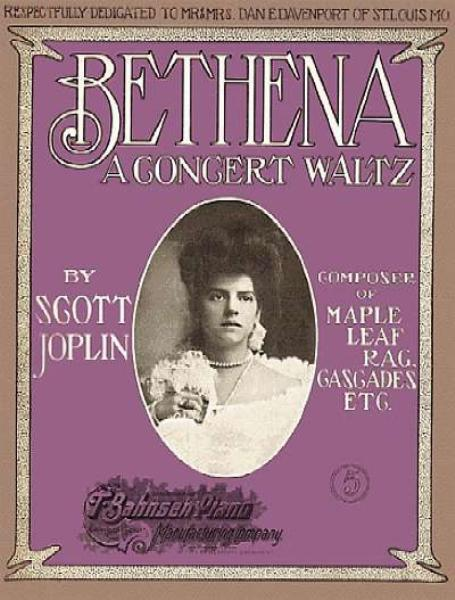 Cover of "Bethena - A Concert Waltz", by the composer Scott Joplin. Published in the US in 1905, and believed to be Public Domain.